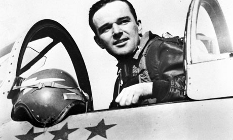 Col. Walker 'Bud' Mahurin onboard his F-86 Sabre in Korea